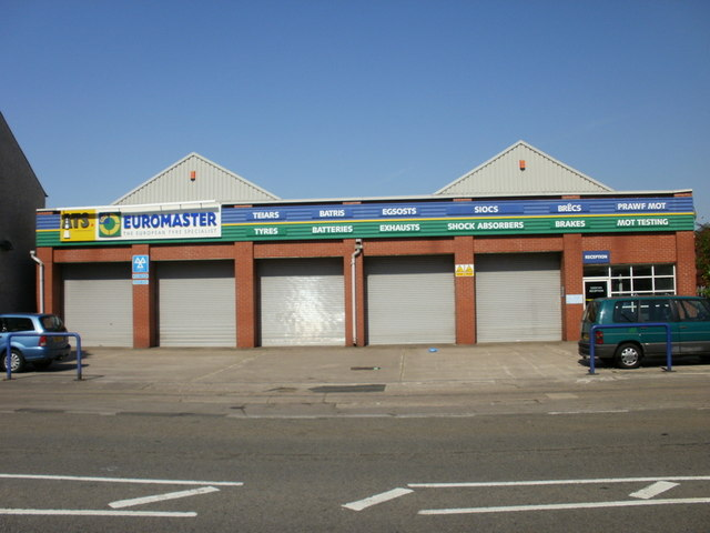 ATS Euromaster, Corporation Road, Newport ATS Euromaster at 101 Corporation Road, between Harrow Road and Eton Road. With such scholarly associations nearby, the short Welsh lesson displayed is appropriate -though most of the Welsh words look similar to their English forms! Established in 1961, ATS Euromaster describes itself as the largest comprehensive tyre service provider within the UK covering all types of vehicles from cars, vans and 4x4s to forklifts, trucks and combines.